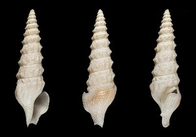 Agladrillia torquata Fallon, 2016; family Drilliidae; French Gyana